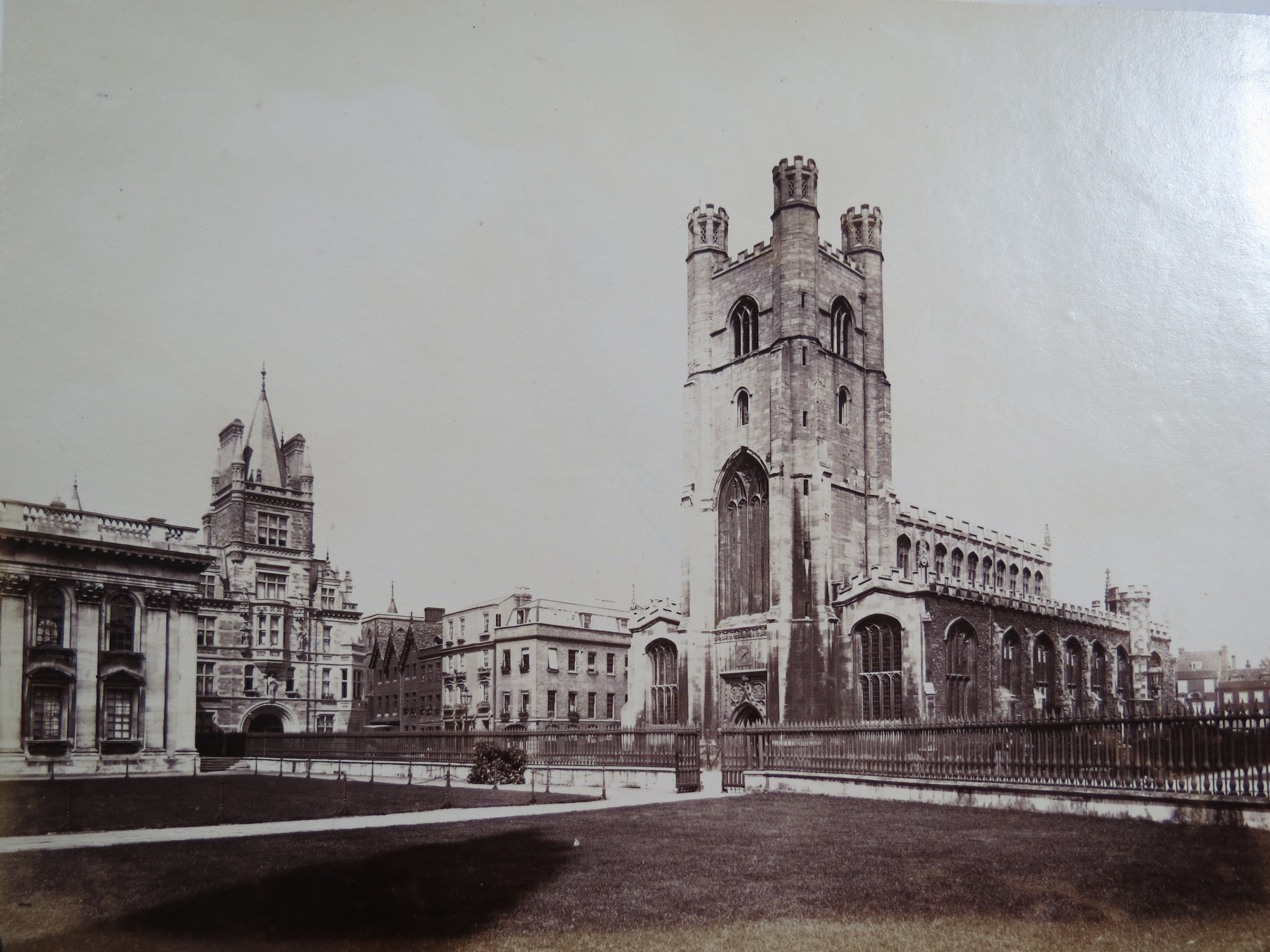 Great St. Mary's Church, Cambridge University. Image taken from original albumen print from a bound album of 58 Cambridge University photographs. Original 19th century album in the possession of Kimberly Blaker, New Boston Fine and Rare Books.